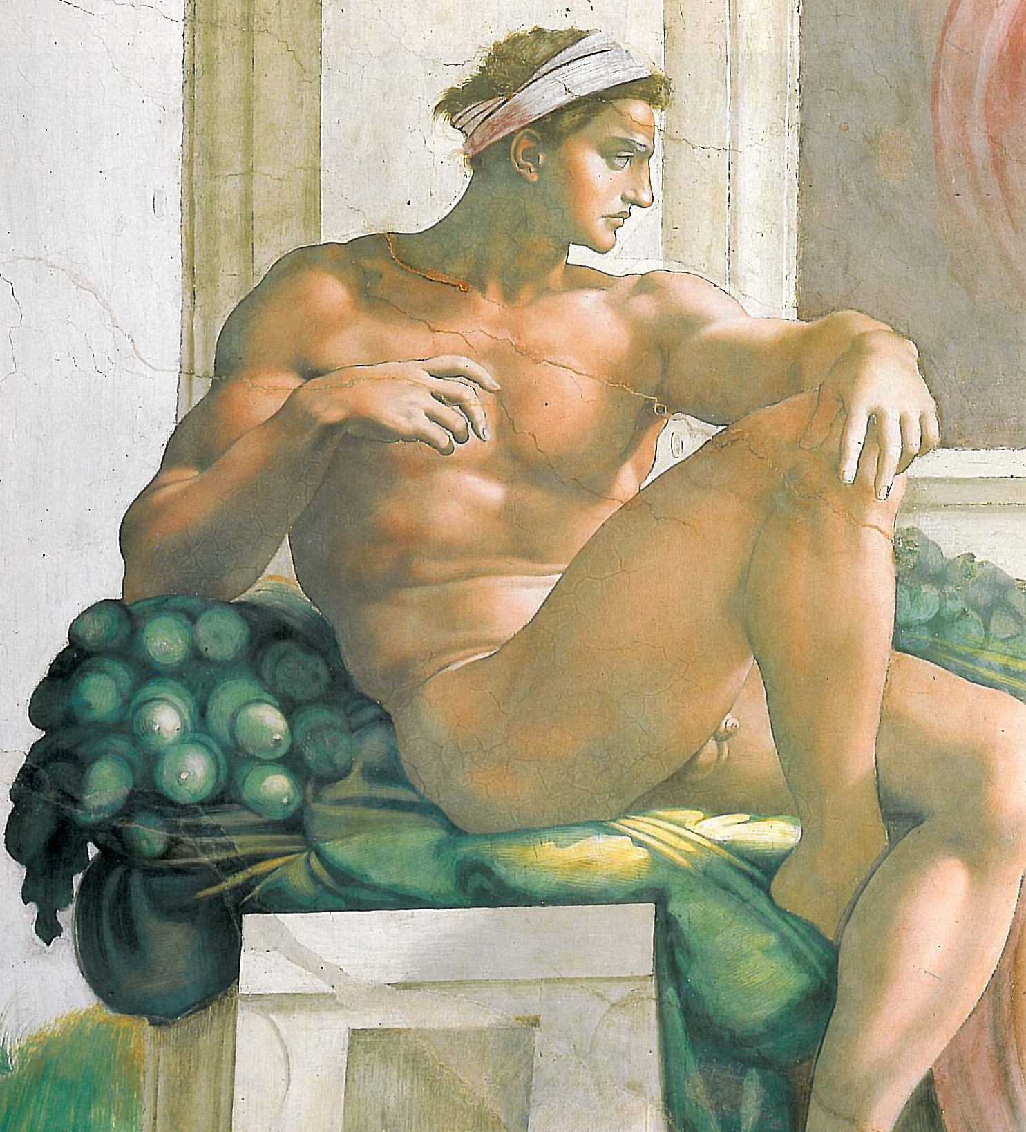 fresco painted by Michelangelo and his assistants for the Sistine Chapel in the Vatican between 1508 to 1512